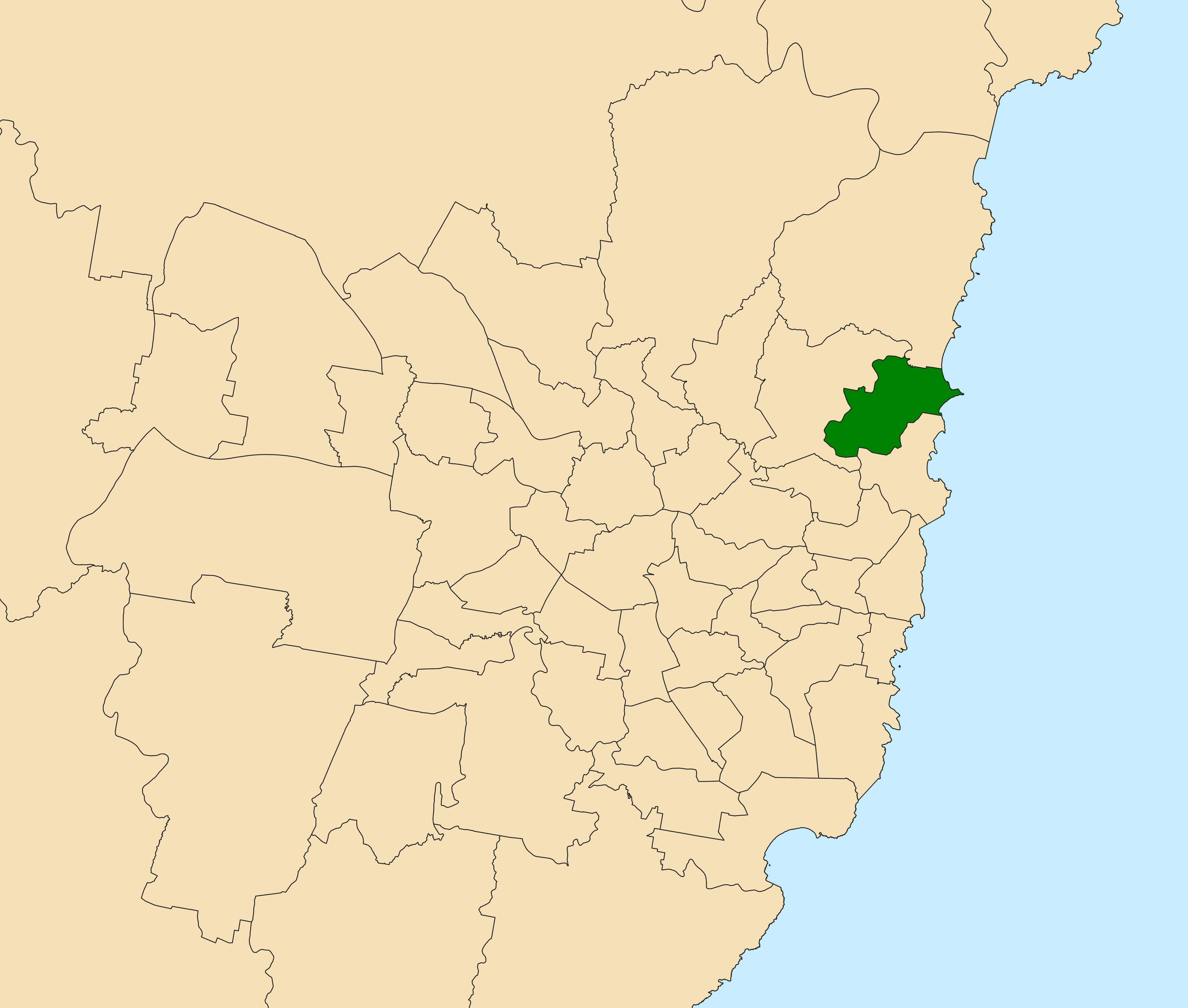 Location of the state electoral district of Wakehurst (dark green) in the metropolitan Sydney area as of the 2019 New South Wales state election. Incorporates or developed using Administrative Boundaries ©PSMA Australia Limited licensed by the Commonwealth of Australia under Creative Commons Attribution 4.0 International licence (CC BY 4.0).